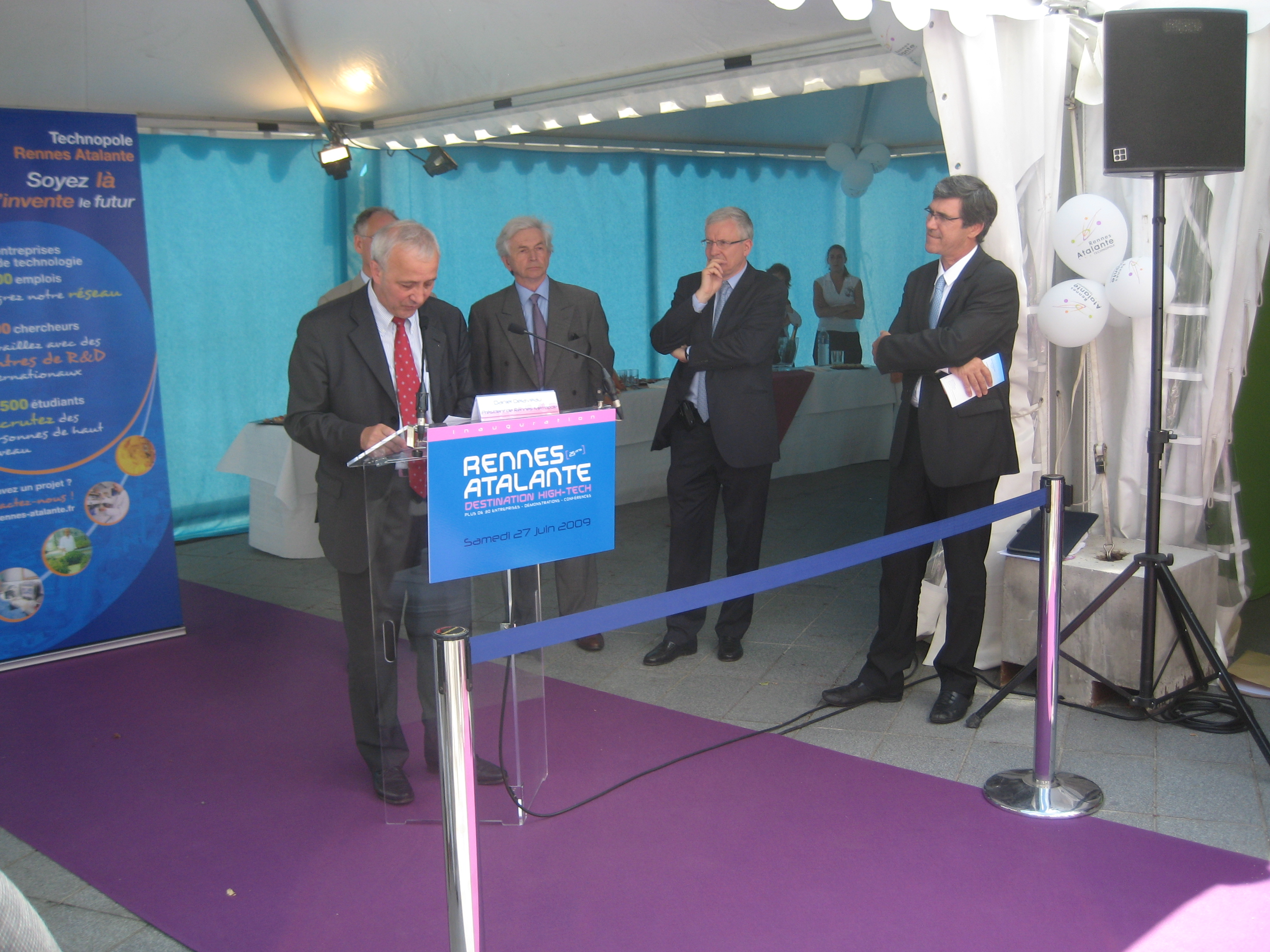 Speech by Daniel Delaveau, mayor of Rennes during the 25th anniversary of Rennes Atalante